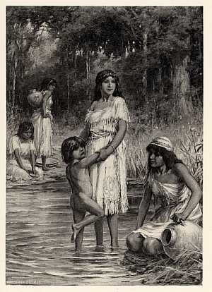 An early drawing of Yosemite Paiute women and children in Yosemite Valley.